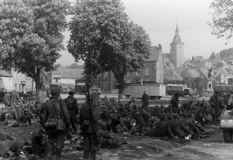 The prisoners are supposed to be Belgian, but this cannot be verified without a doubt.